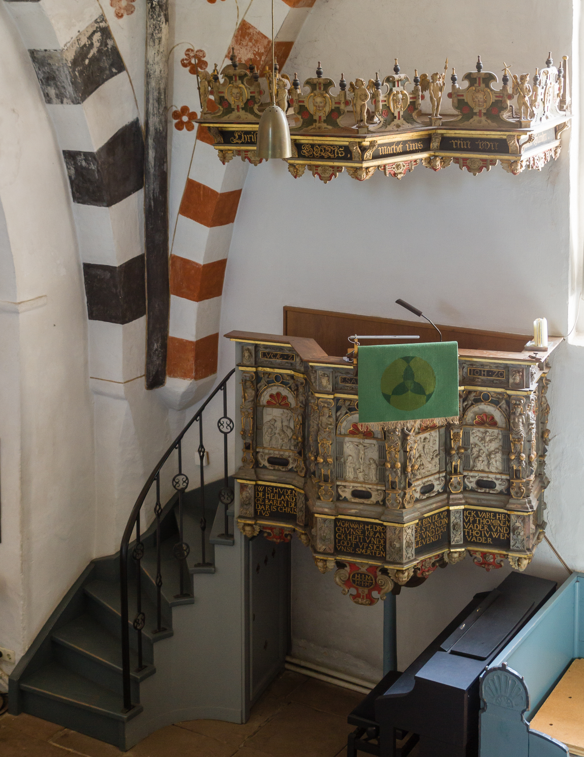 Designation: Church St. Nicolai with equipment Location: Kirchweg Place: Wyk-Boldixum, Collective municipality Föhr-Amrum, District Nordfriesland, Schleswig-Holstein, Federal Republic of Germany Construction time: 13th century Description: Romanesque church building with gothic and baroque extensions Object identification: 1510